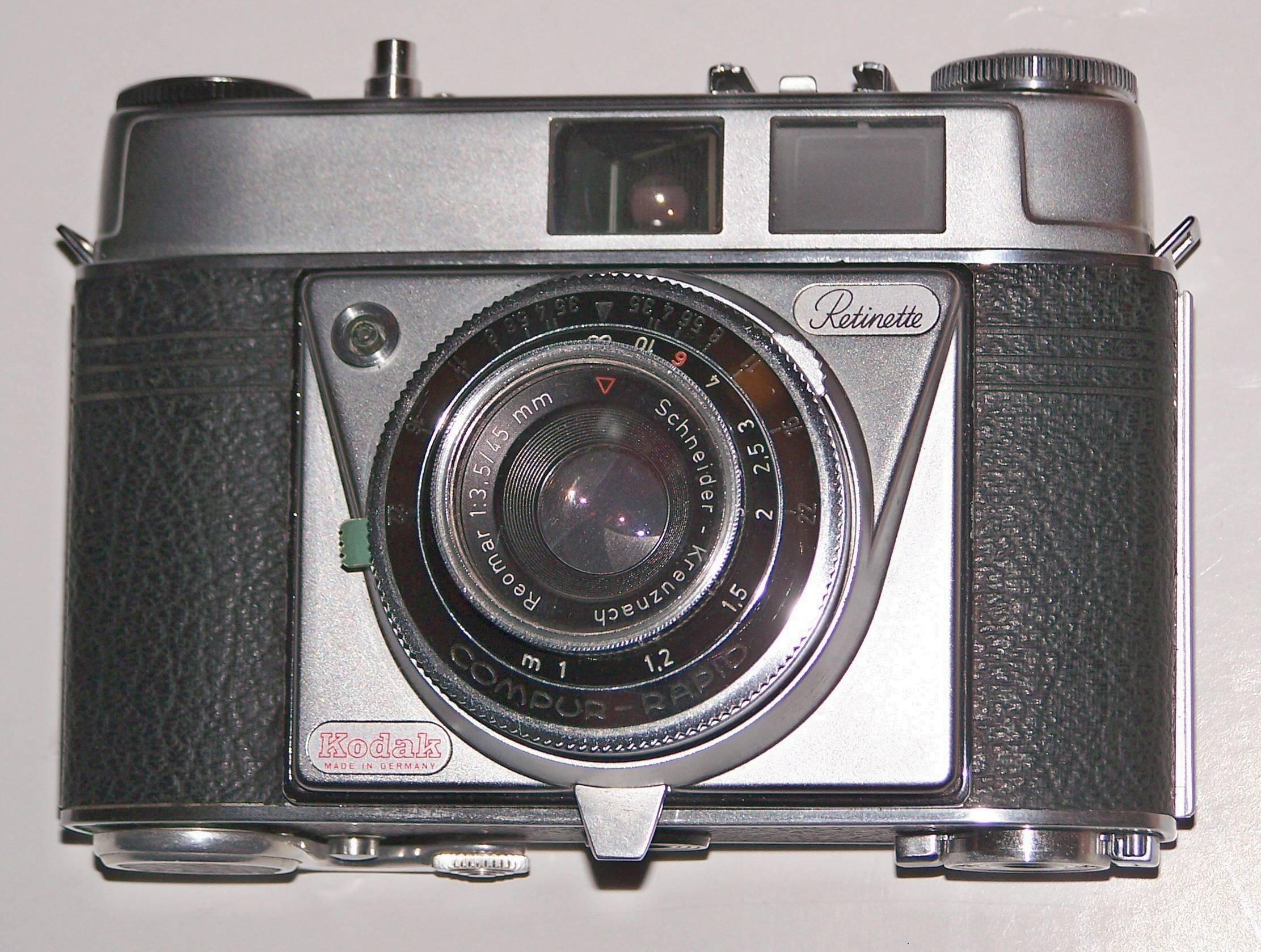 Please see filename above